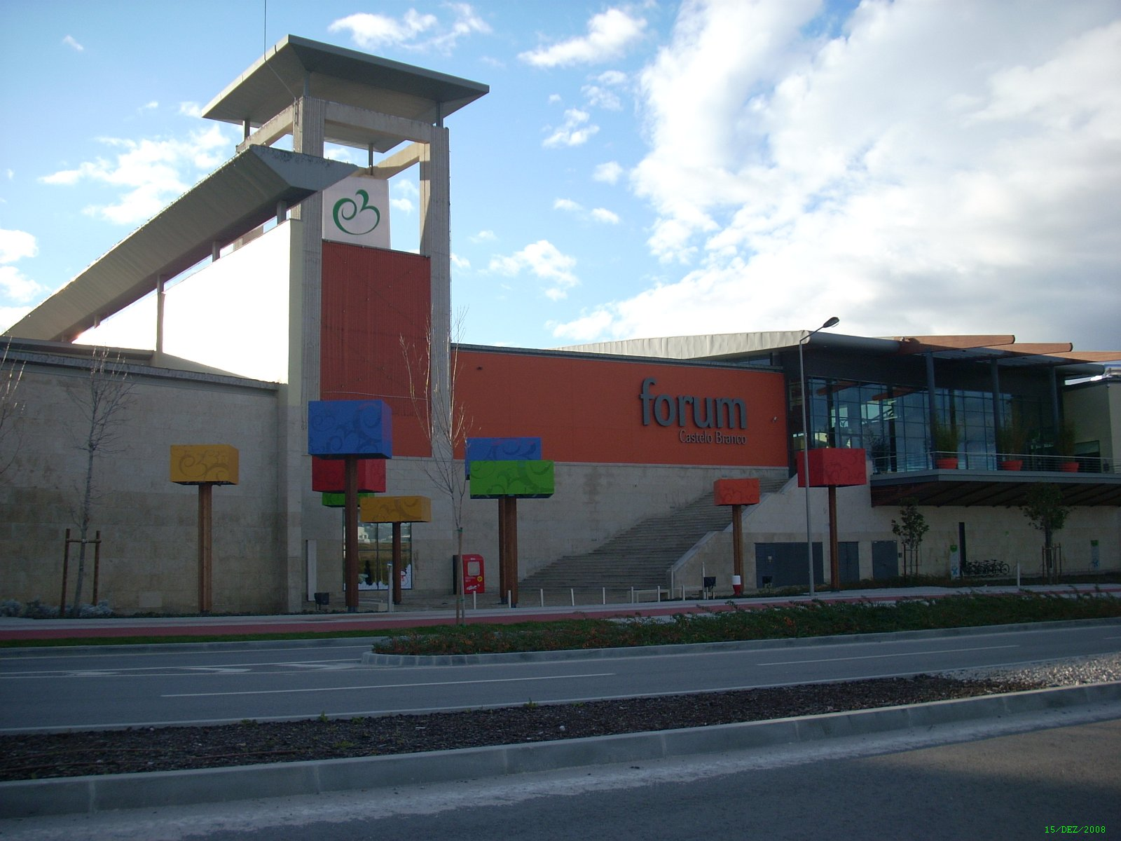 Fórum commercial center in Castelo Branco (East view)